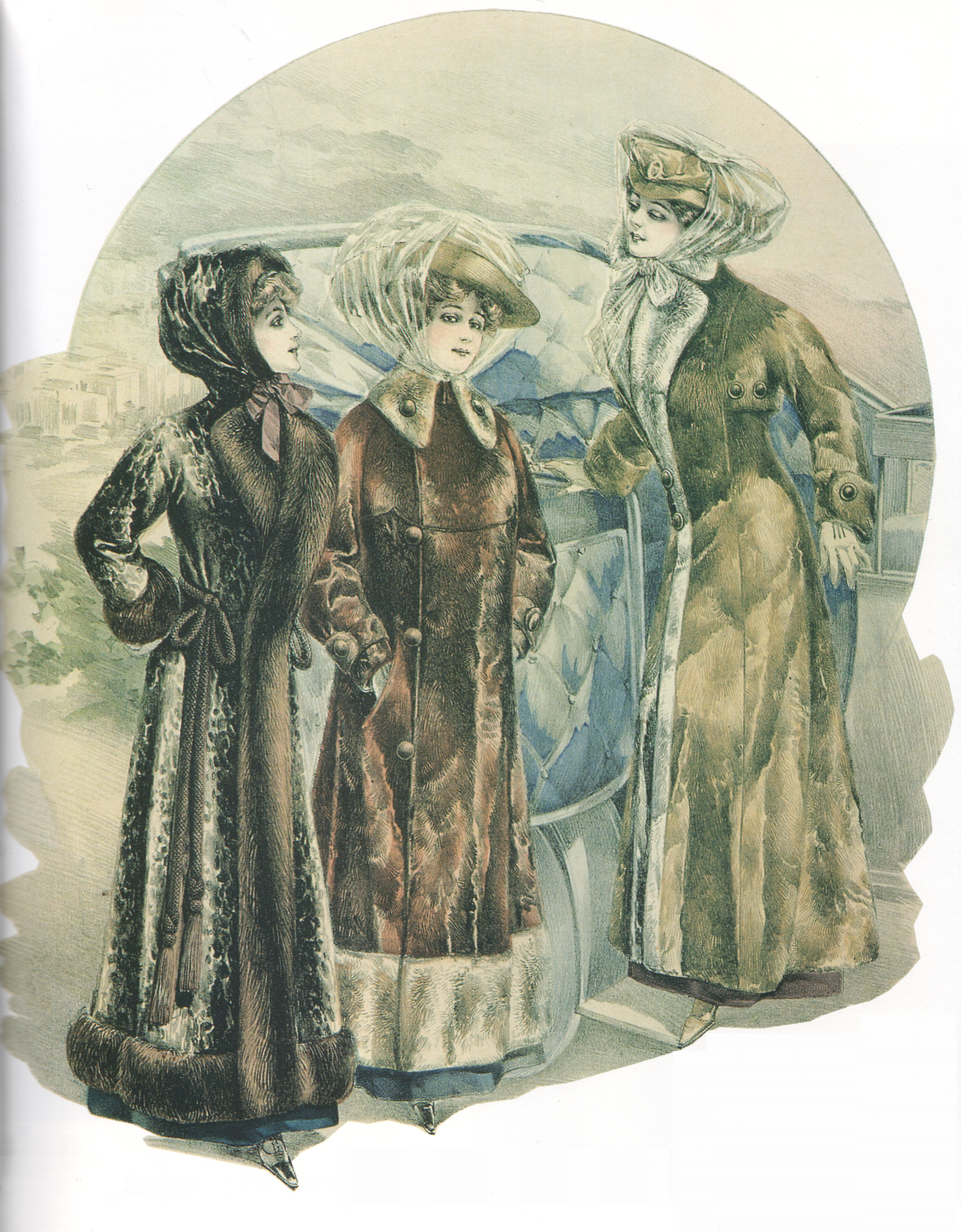 Municchi writes: ‚...In seal bordered with skunk and pony, respectively trimmed with nutria and otter...‘